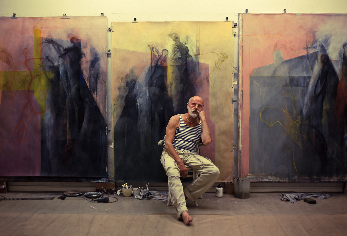 Klaus Vogelgesang in his studio, Berlin 2011